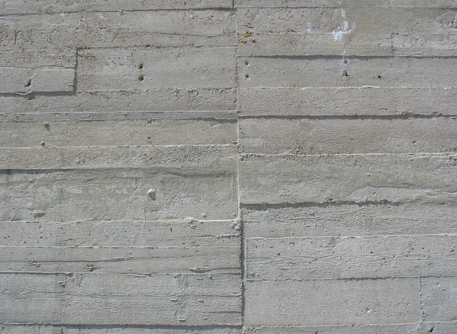 Saint Saint Brelade, Jersey